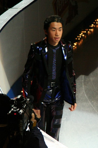 Nobunari Oda at the 2006 Skate America exhibition.